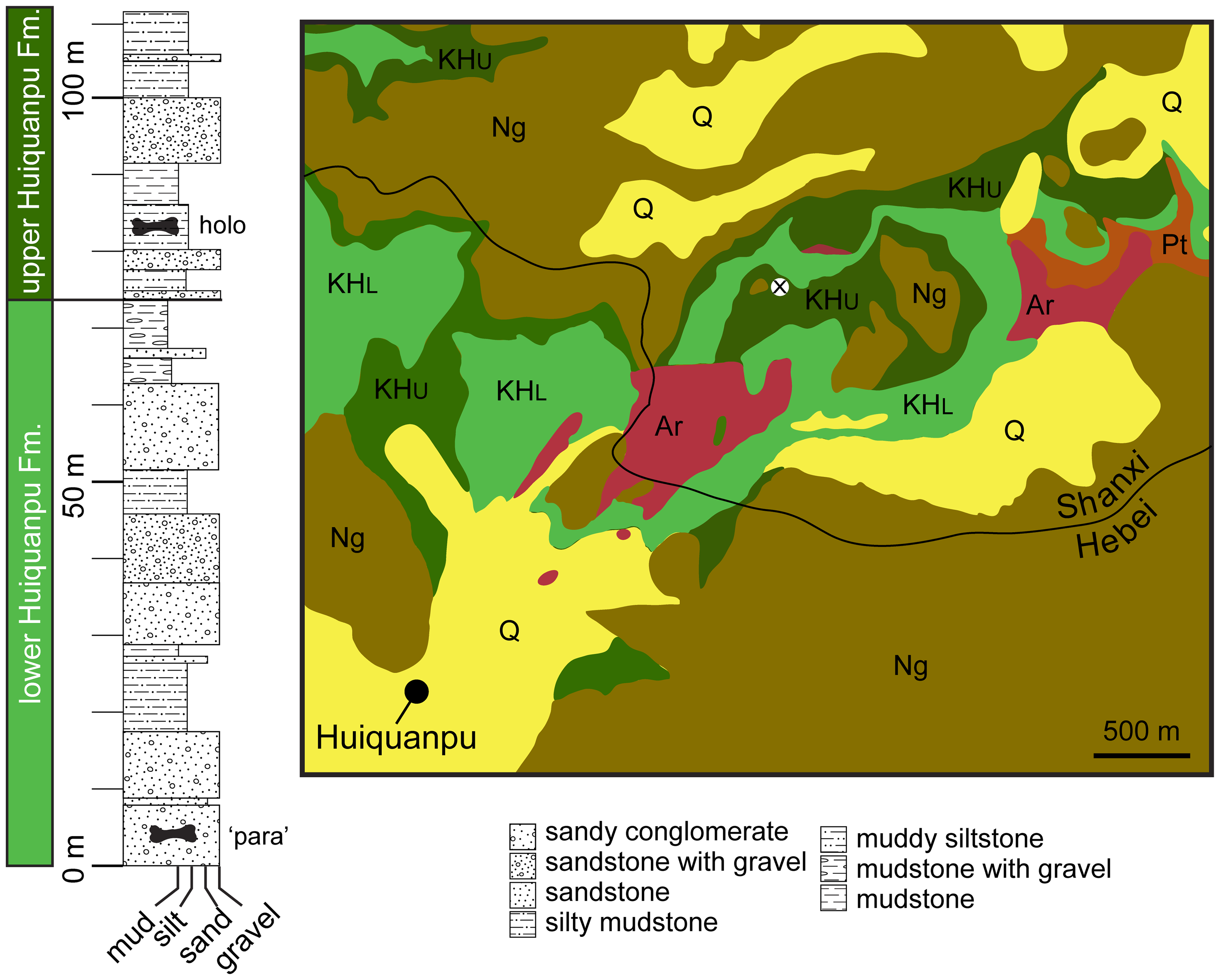 Stratigraphy and geology of holotype locality of H. allocotus (HBV-20001) from the Upper Cretaceous of Shanxi, China, marked by ‘x’. Abbreviations: Ar, Archean Jining Group; holo, holotype of H. allocotus; KHl, lower member of Upper Cretaceous Huiquanpu Formation; KHu, upper member of Upper Cretaceous Huiquanpu Formation; Ng, Neogene (?Miocene) Hanruoba Formation; Q, Quaternary sediments; para, former paratype humerus of H. allocotus (see text); Pt, Proterozoic rocks.